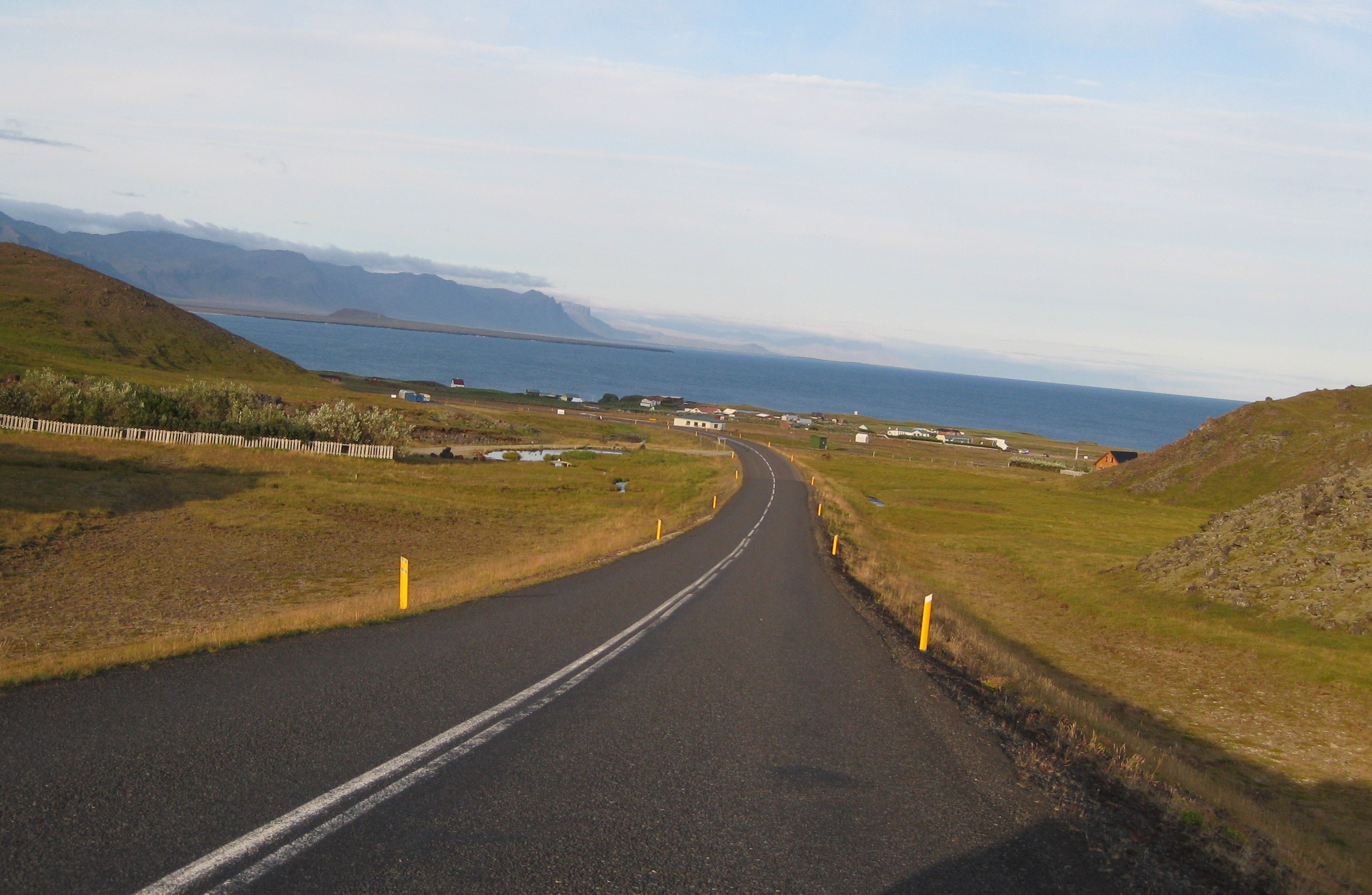 Road to Arnarstapi in Snæfellsnes , Iceland. Photo by Salvor Gissurardottir in August 2008